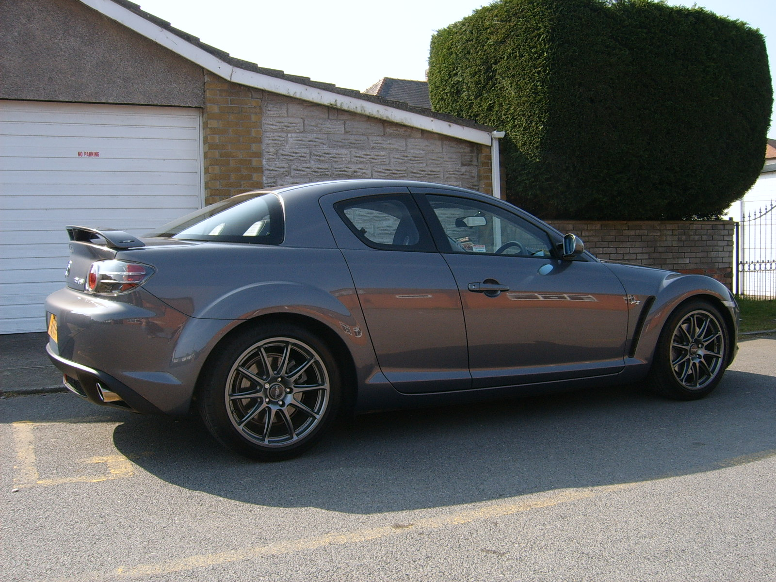 Picture of RX-8 PZ